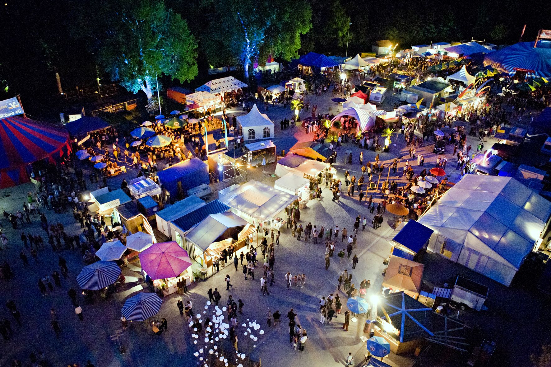 Uferlos Festival von oben